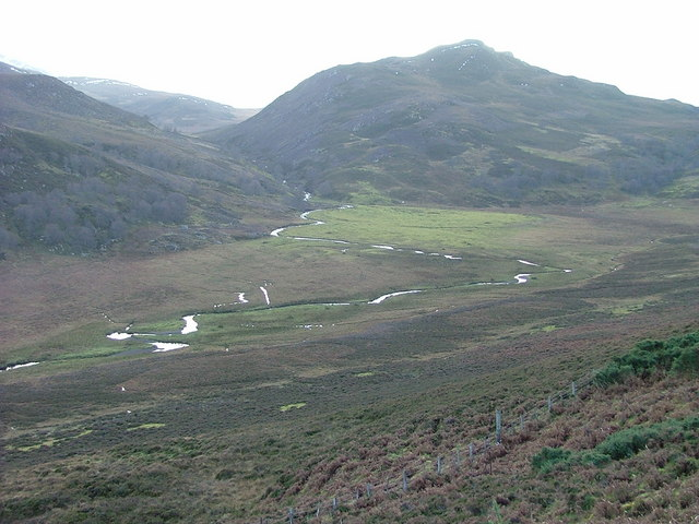 Gleann nan Eun, east of Loch Ness, Scotland, with the river of the same name meandering through it.